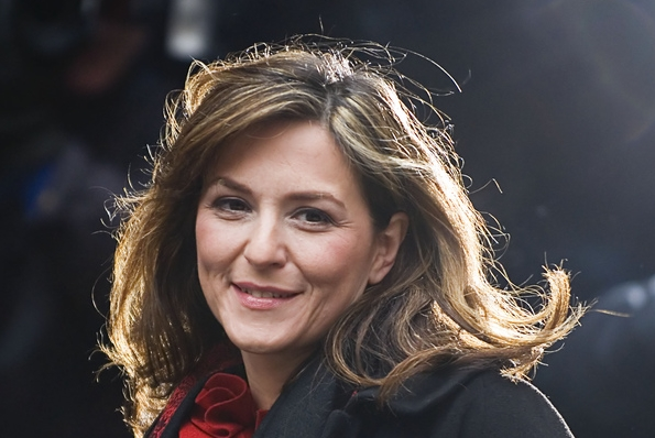 Martina Gedeck leaving the press conference of "The good shepherd", Hyatt Hotel, Potsdamer Platz, Berlin.